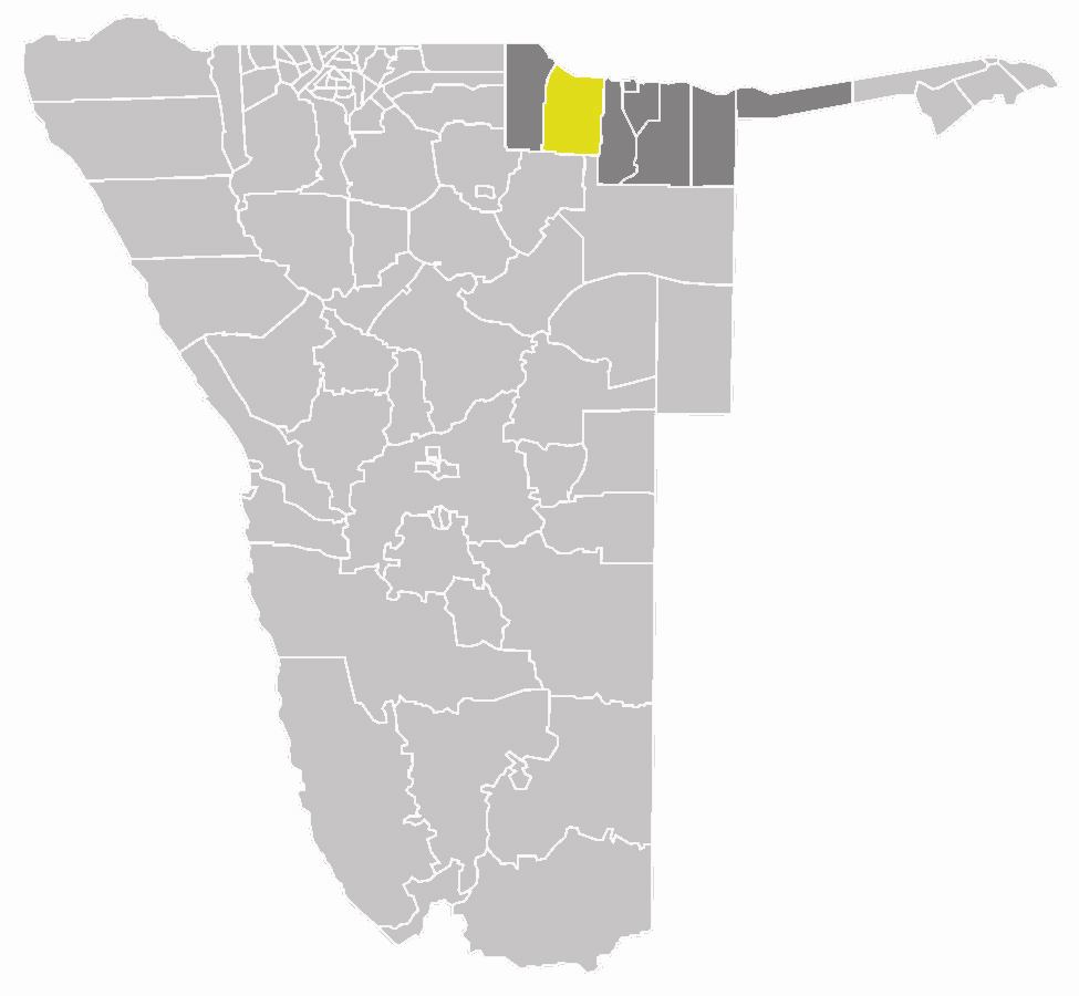 map of the Kahenge constituency within the Kavango region, Namibia